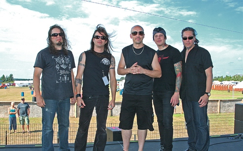 Souncheck photo from the Halfway Jam in Royalton MN 2012